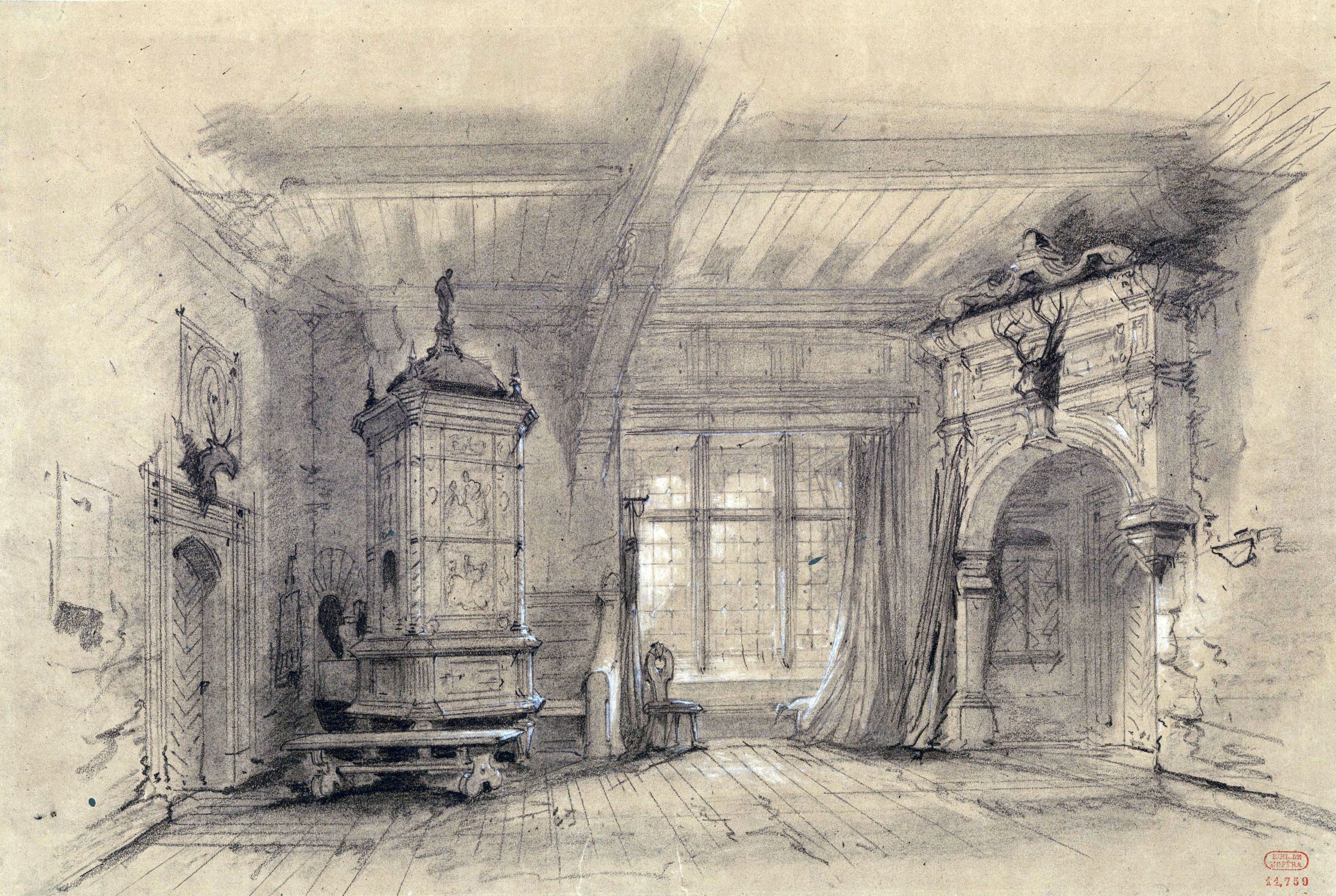 Act 2 of Robin des Bois, a French adaptation of Carl Maria von Weber's opera Der Freischütz, as performed by the Théâtre Lyrique in Paris beginning on 24 January 1855; sketch for the set design for a room in the gamekeeper's house (365 x 545 mm)